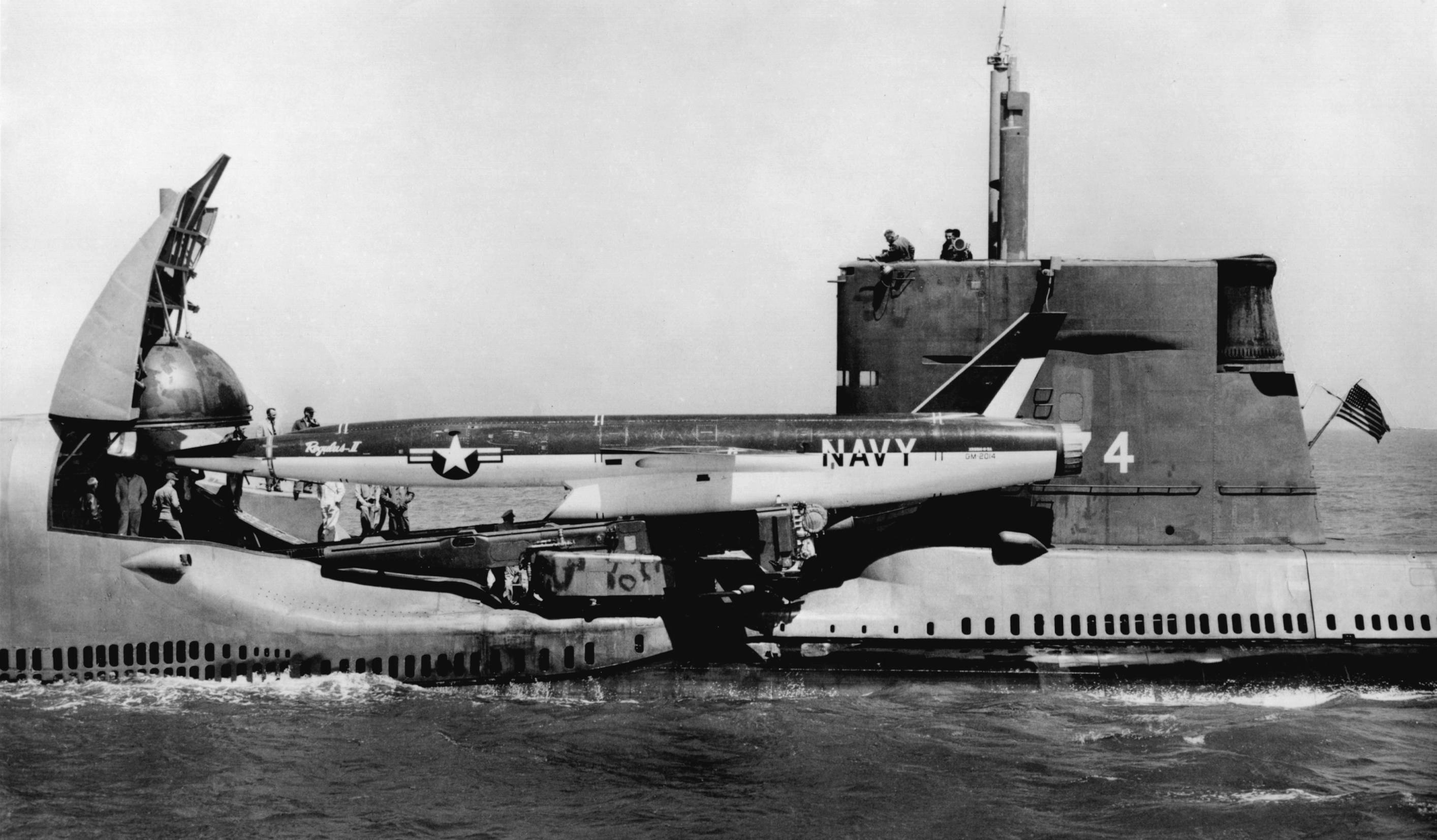 USS Grayback (SSG-574), preparing to launch a SSM-N-9 Regulus II missile, circa 1960, place unknown.